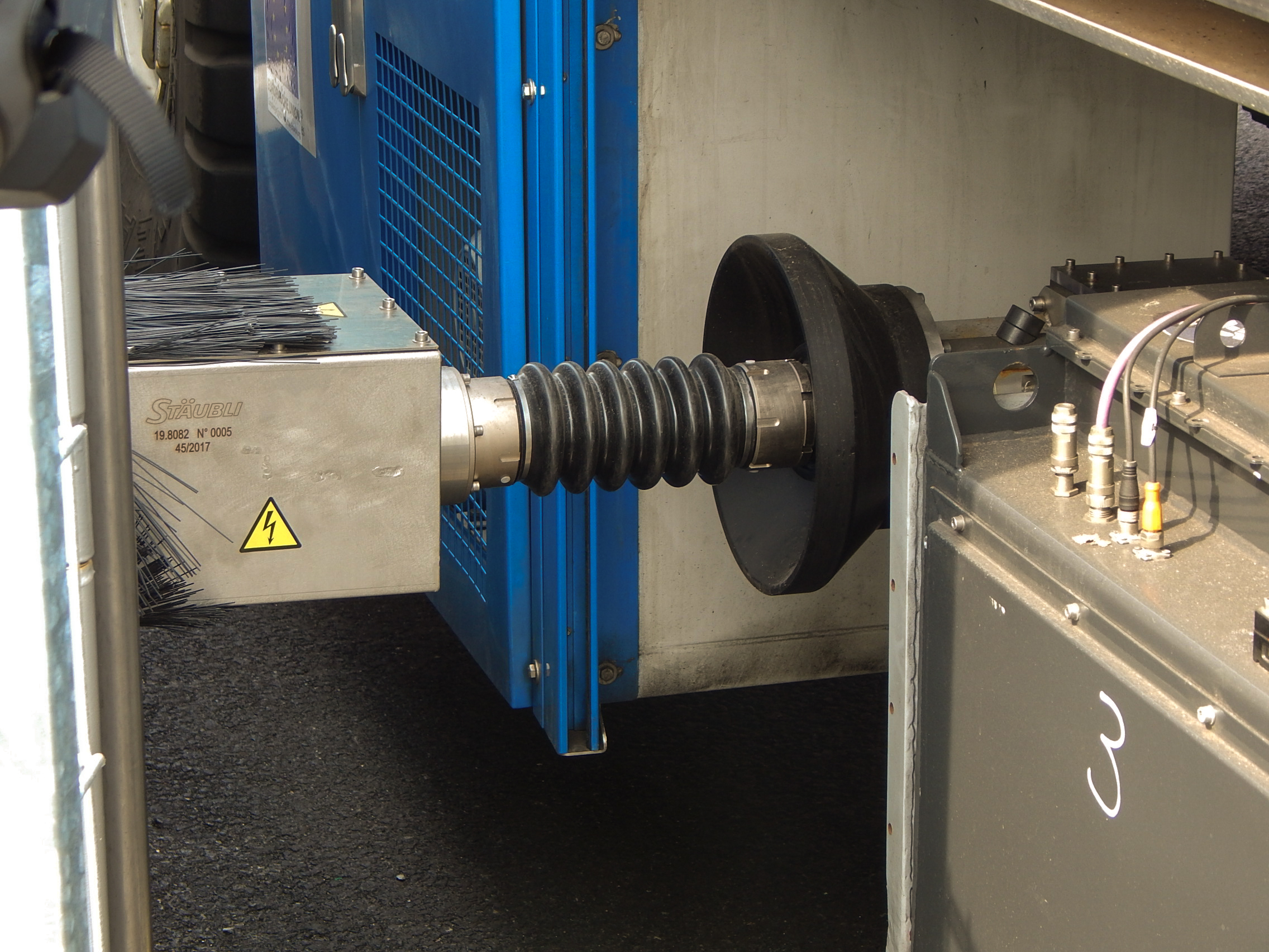 HHLA CTA Presseinfo Automated Guided Vehicle